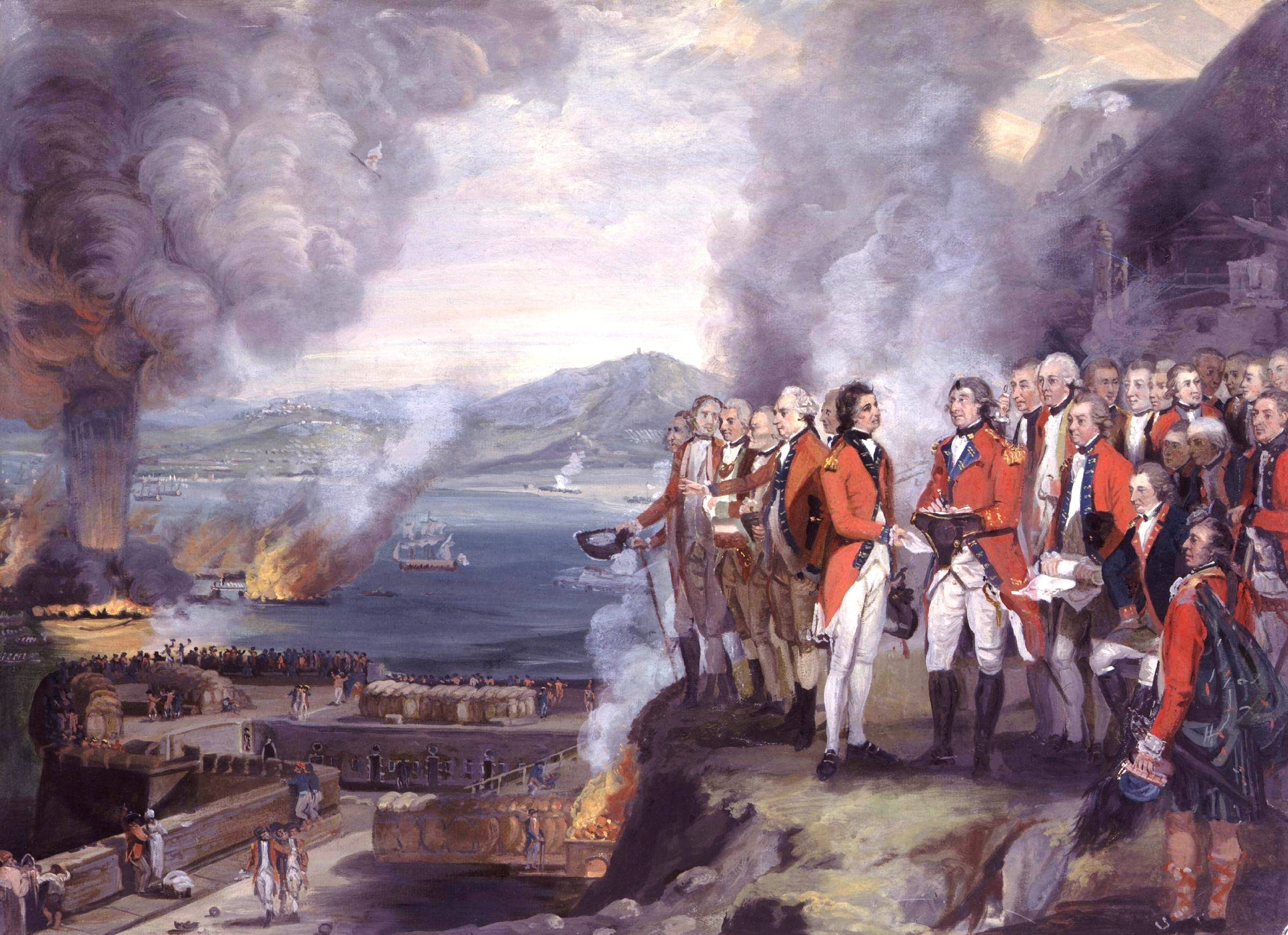 The Siege of Gibraltar, 1782, by George Carter (died 1794), given to the National Portrait Gallery, London in 1914. All images in this batch have been confirmed as author died before 1939 according to the official death date listed by the NPG.